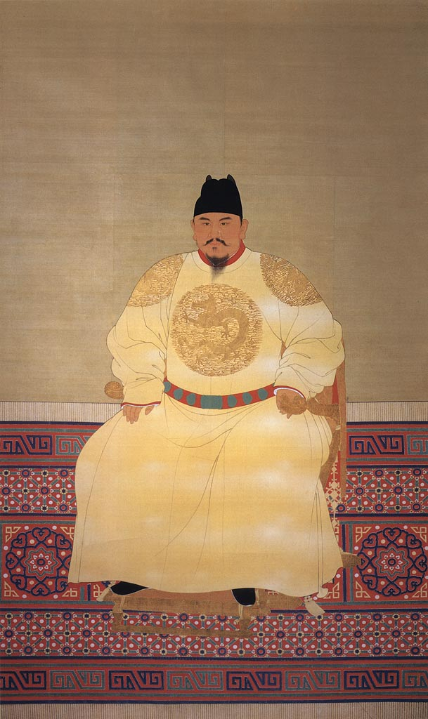 Official court painting of the Hongwu Emperor (reigned 1368-1398 AD), Ming Dynasty, China. Hanging scroll, color on silk. Size 270 x 163.6 cm (height x width). Painting is located in National Palace Museum, Taipei. (See: Page 108 of 故宮圖像選萃 (Gu gong tu xiang xuan cui) Masterpieces of Chinese Portrait Painting in the National Palace Museum. Taipei: National Palace Museum. 1971.)